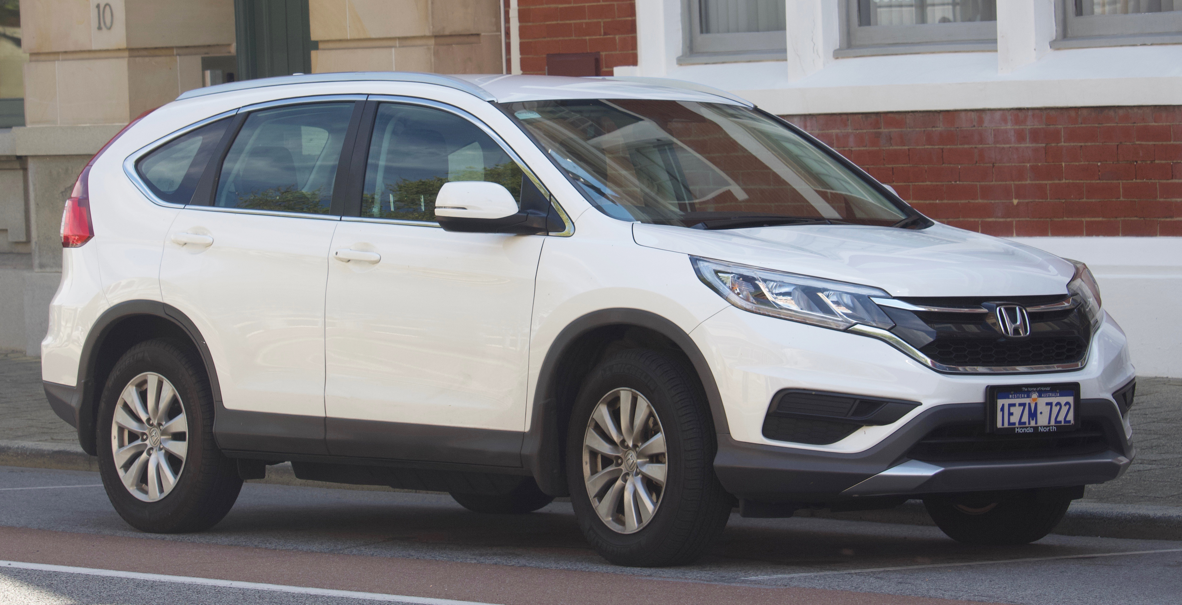 2016 Honda CR-V (RM Series II MY16) VTi 2.0 2WD wagon. Photographed in Fremantle, Western Australia, Australia.